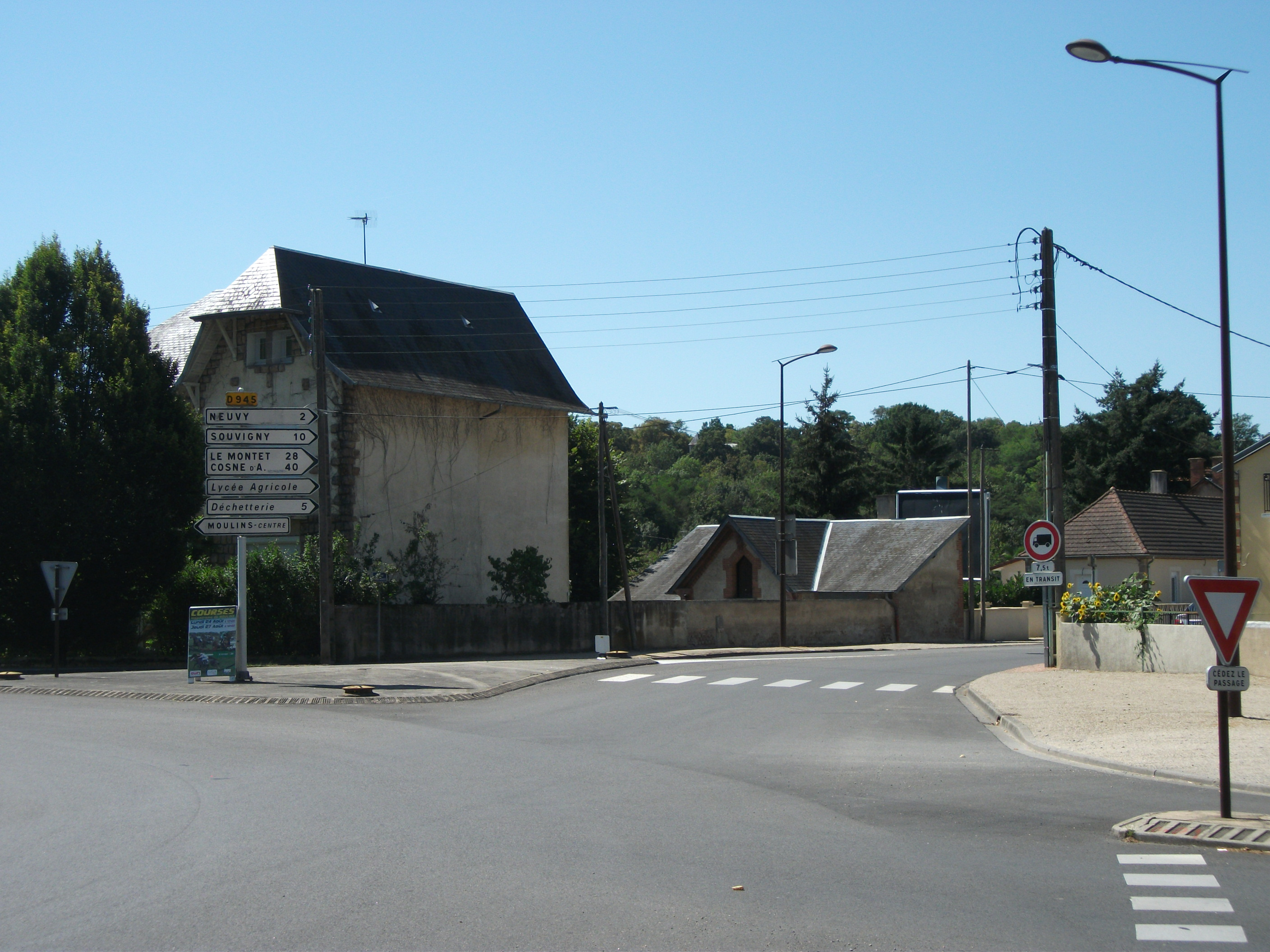 Departmental road 945 towards Souvigny [8834]